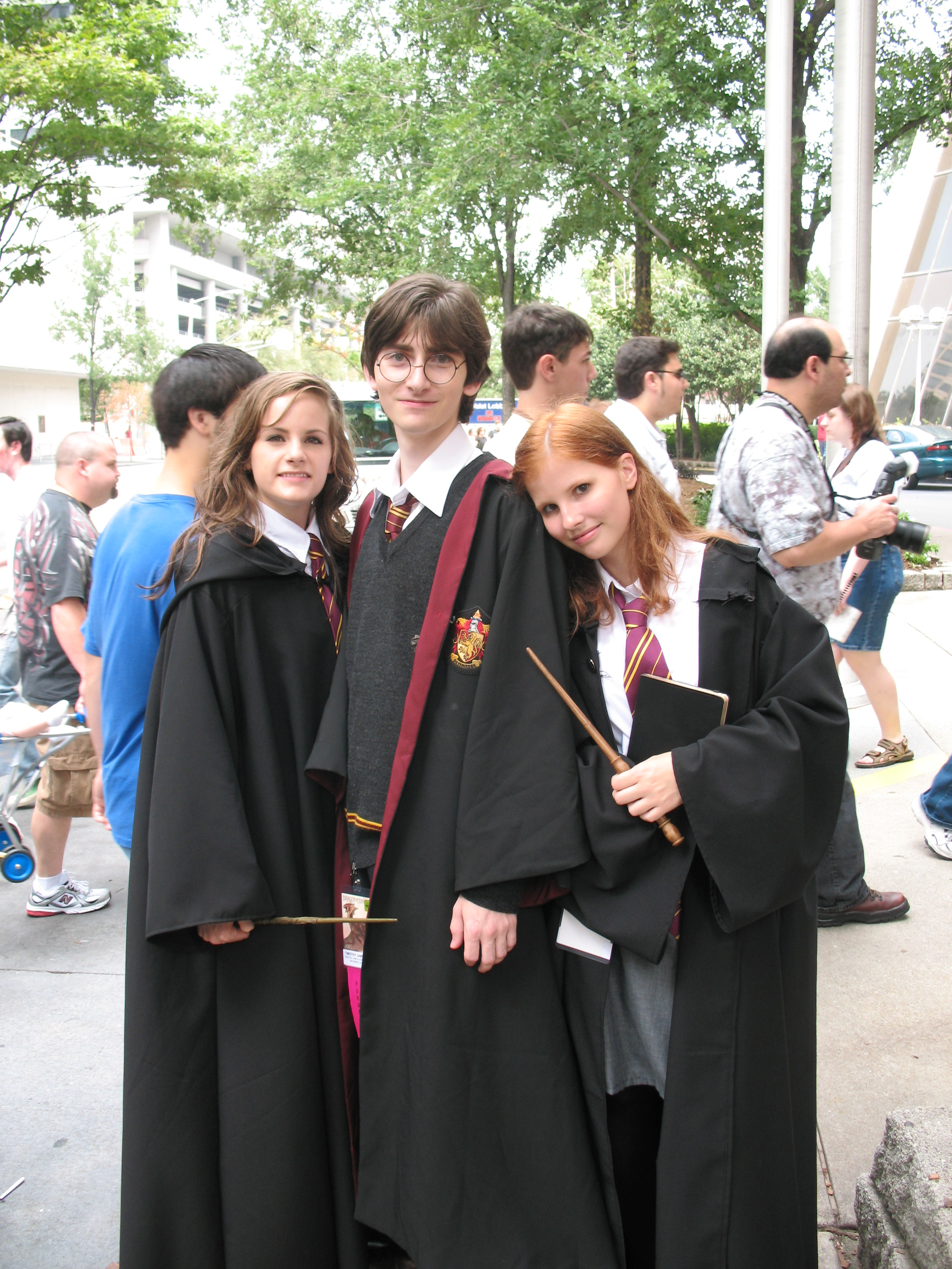 Harry Potter fans wearing Hogwarts uniform's robes.